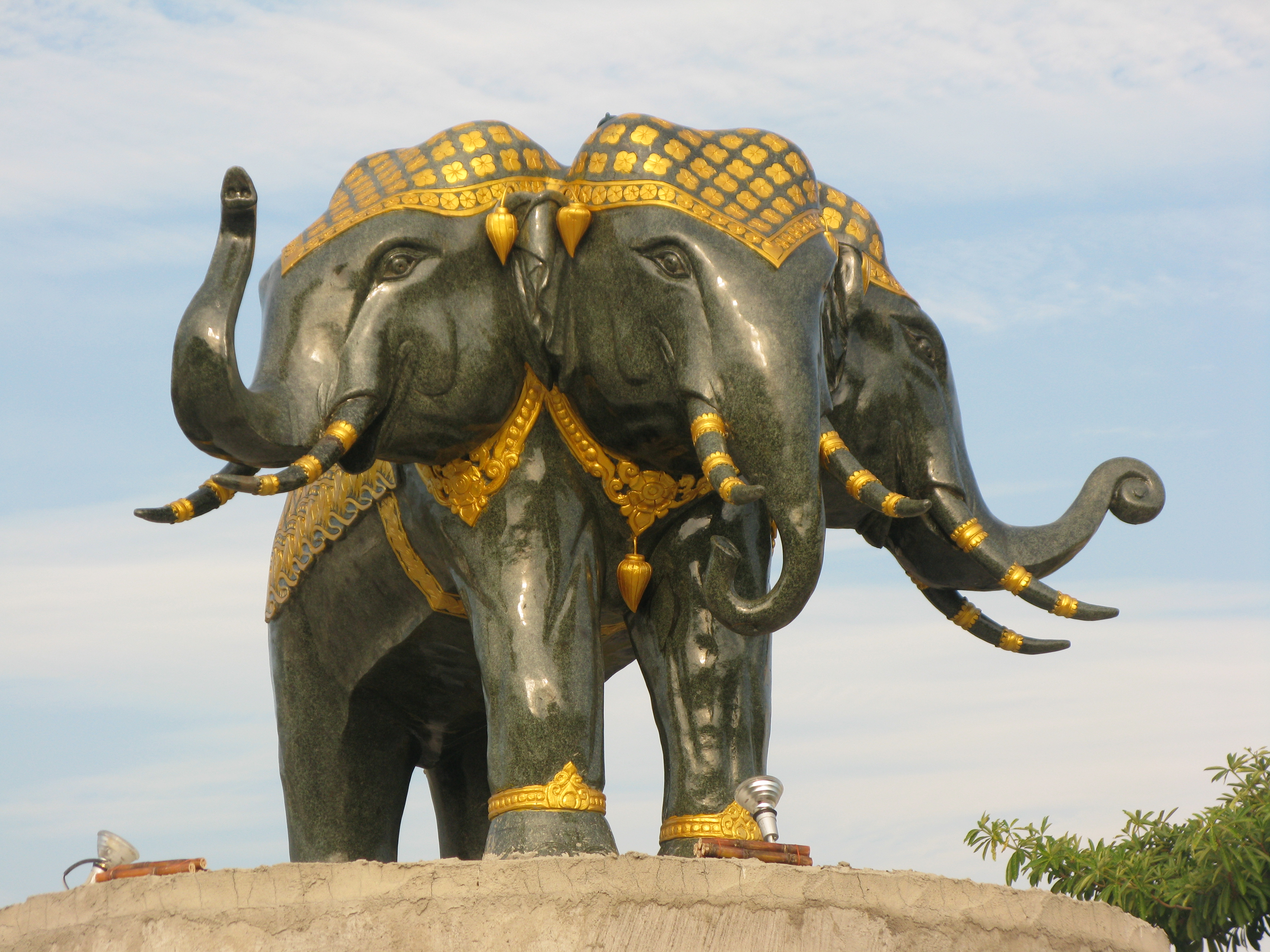 A statue of Airavata (a.k.a. Erawan), the three-headed elephant in Hindu mythology